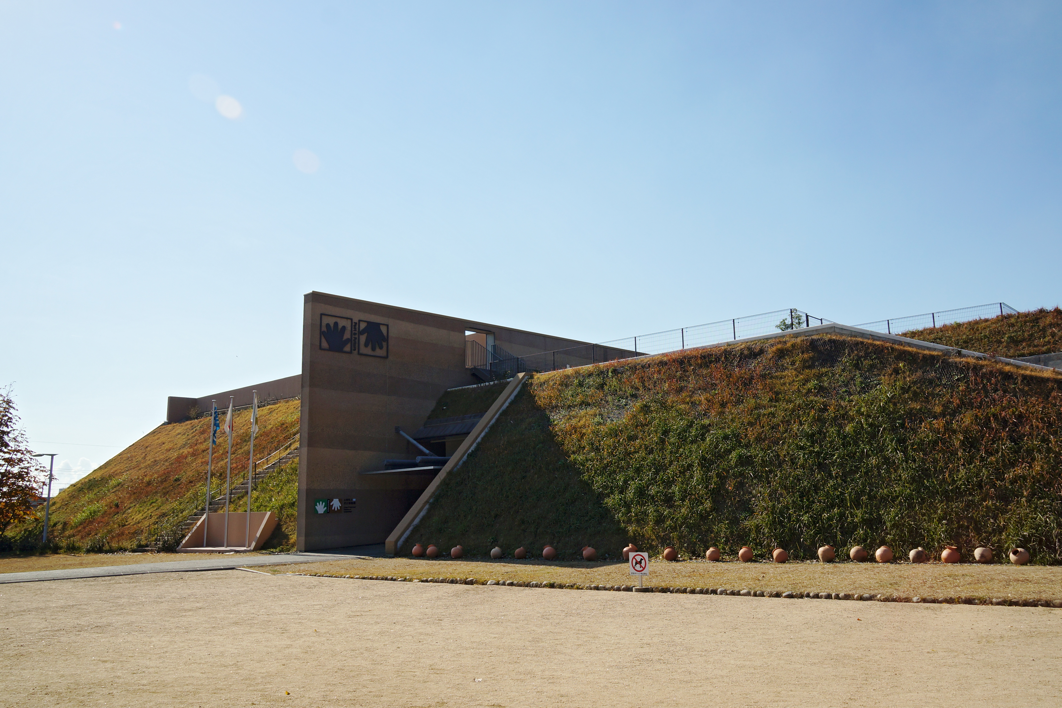 At Hyogo Prefectural Museum of Archaeology in Harima, Hyogo prefecture, Japan.